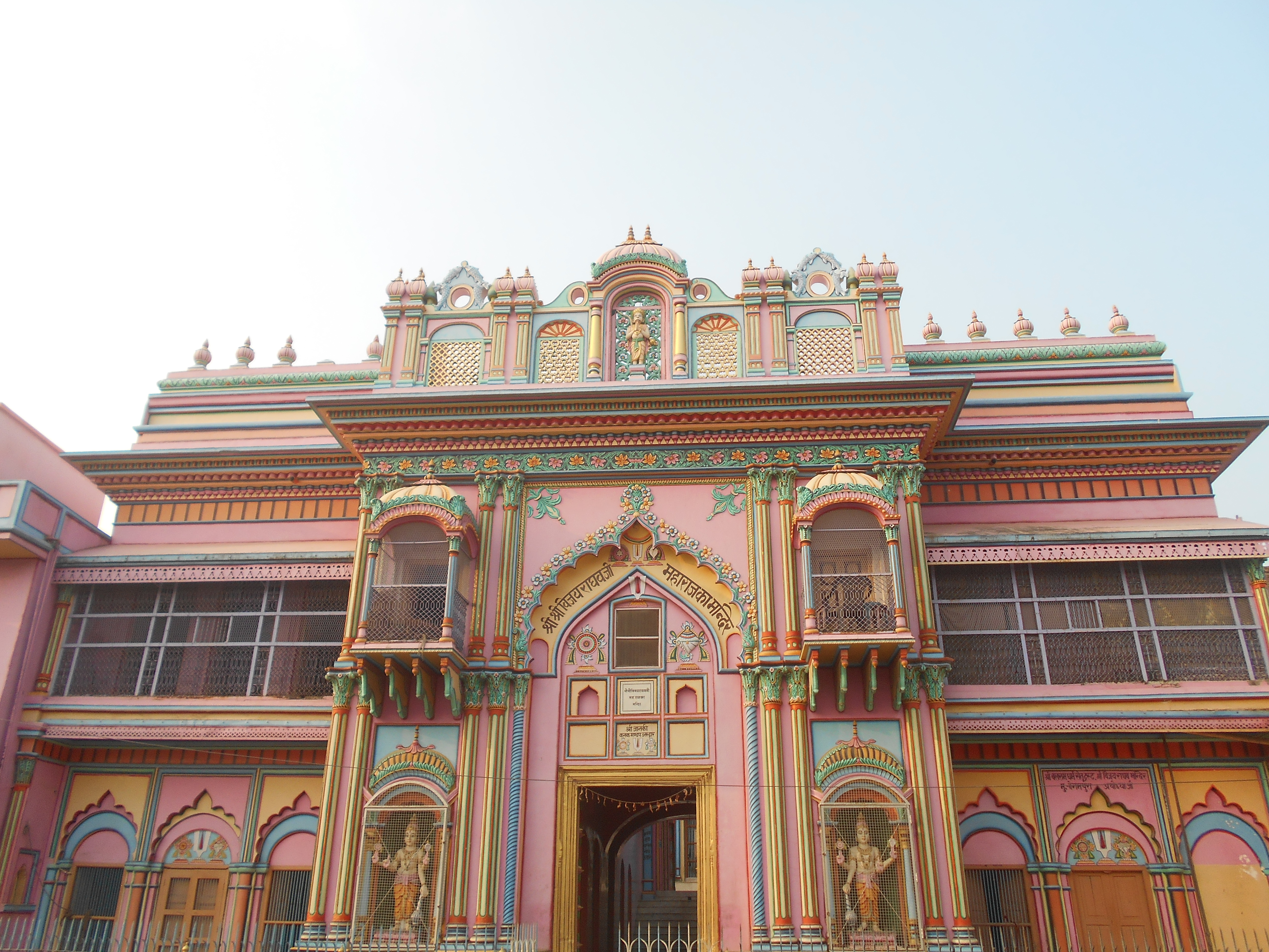 Sri Sri Vijayaraghavaji Temple